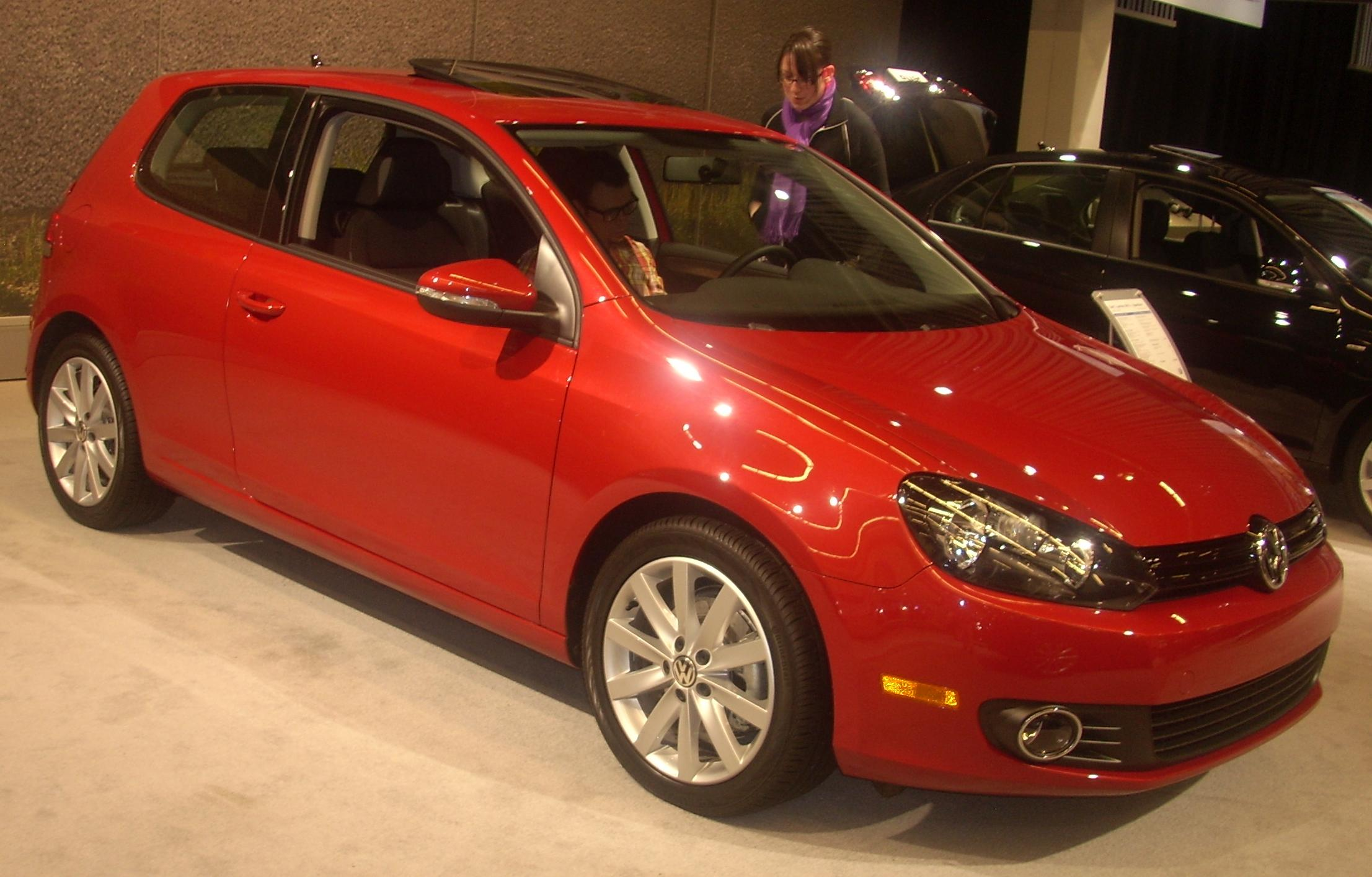 2010 Volkswagen Golf photographed in Montreal, Quebec, Canada at the 2010 Montreal International Auto Show.